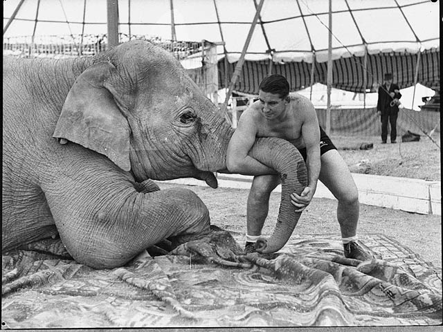 Photograph of New Zealand professional wrestler Lofty Blomfield at Leichhardt Stadium in 1937. The image, provided by the State Library of New South Wales, was taken prior to January 1, 1955, and is considered in the public domain.